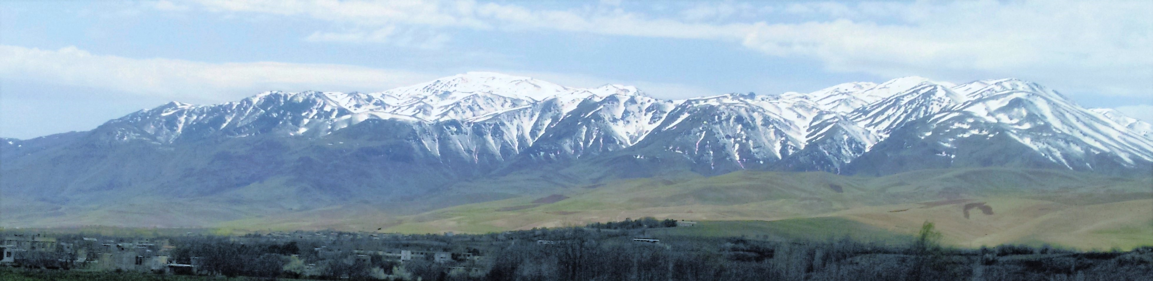 view from Borujerd